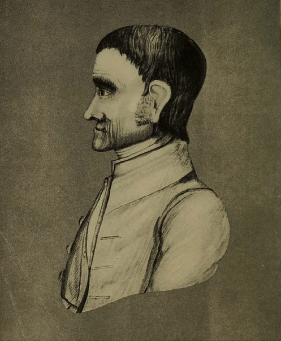 PORTRAIT OF JOHN WOOLMAN The original sepia drawing on a large folio sheet from which this reproduction has been made is almost certainly the work of John Woolman's friend and contemporary, Robert Smith III, of Burlington, New Jersey, son of Daniel (d. 1781), and grandson and namesake of the well known Judge Robert Smith of the Court of Common Pleas, Burlington County (1769 &c). Robert Smith III married Mary, daughter of Job Bacon, of Bacon's Neck, N. J. He had a natural gift for seizing a likeness and has left a large collection of striking sketches. The technique is identical with this sketch, which, however, is more ambitious, and the erratic background is omitted. The medal of the British and Foreign Anti-Slavery Association, founded in 1787 by Thomas Clarkson, which appears in the original, goes to prove this a memory sketch, as are many of Robert Smith's portraits, and also furnishes corroborative evidence of its genuineness. The original was in possession of the late Governor Samuel W. Pennypacker, whose endorsement is on the reverse, and whose accurate judgment was seldom at fault. It was sold with the contents of his library in 1908 and came later into the hands of the present owner, George Vaux, Jr., of Bryn Mawr, Pa., to whom are due the editor's thanks for the privilege of reproduction.